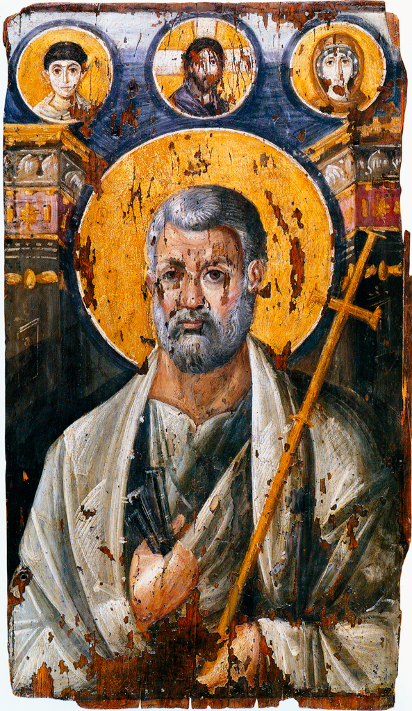 Artist: Unknown. Date: second half of the 6th century. Provenance: Constantinople. Present location: Sinai. 92.8 x 53.1 cm. Encaustic icon.